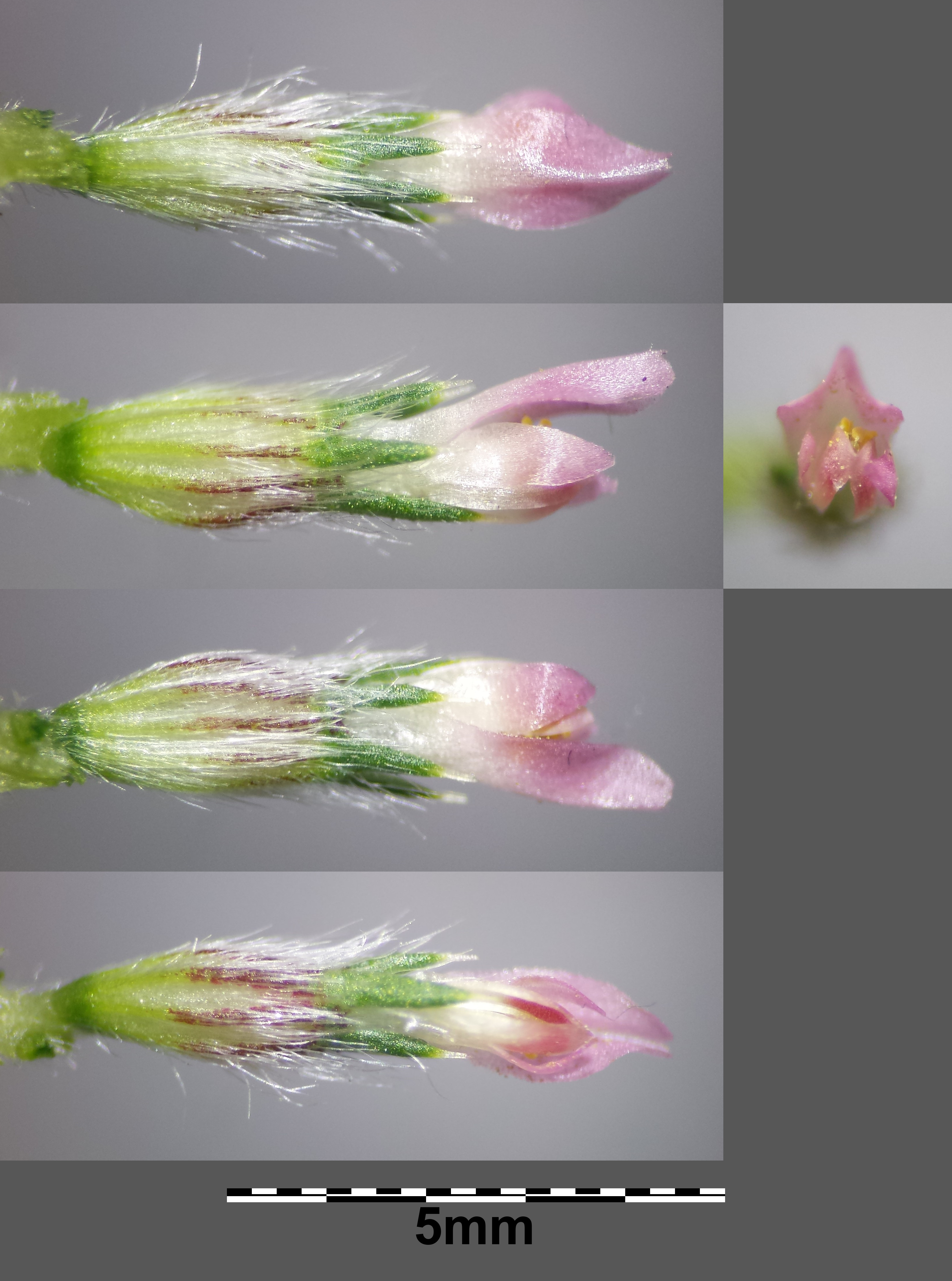 Flower Taxonym: Trifolium striatum ss Fischer et al. EfÖLS 2008 ISBN 978-3-85474-187-9 Location: Korneuburg rail station, district Korneuburg, Lower Austria - ca. 170 m a.s.l. Habitat: ruderal lawn